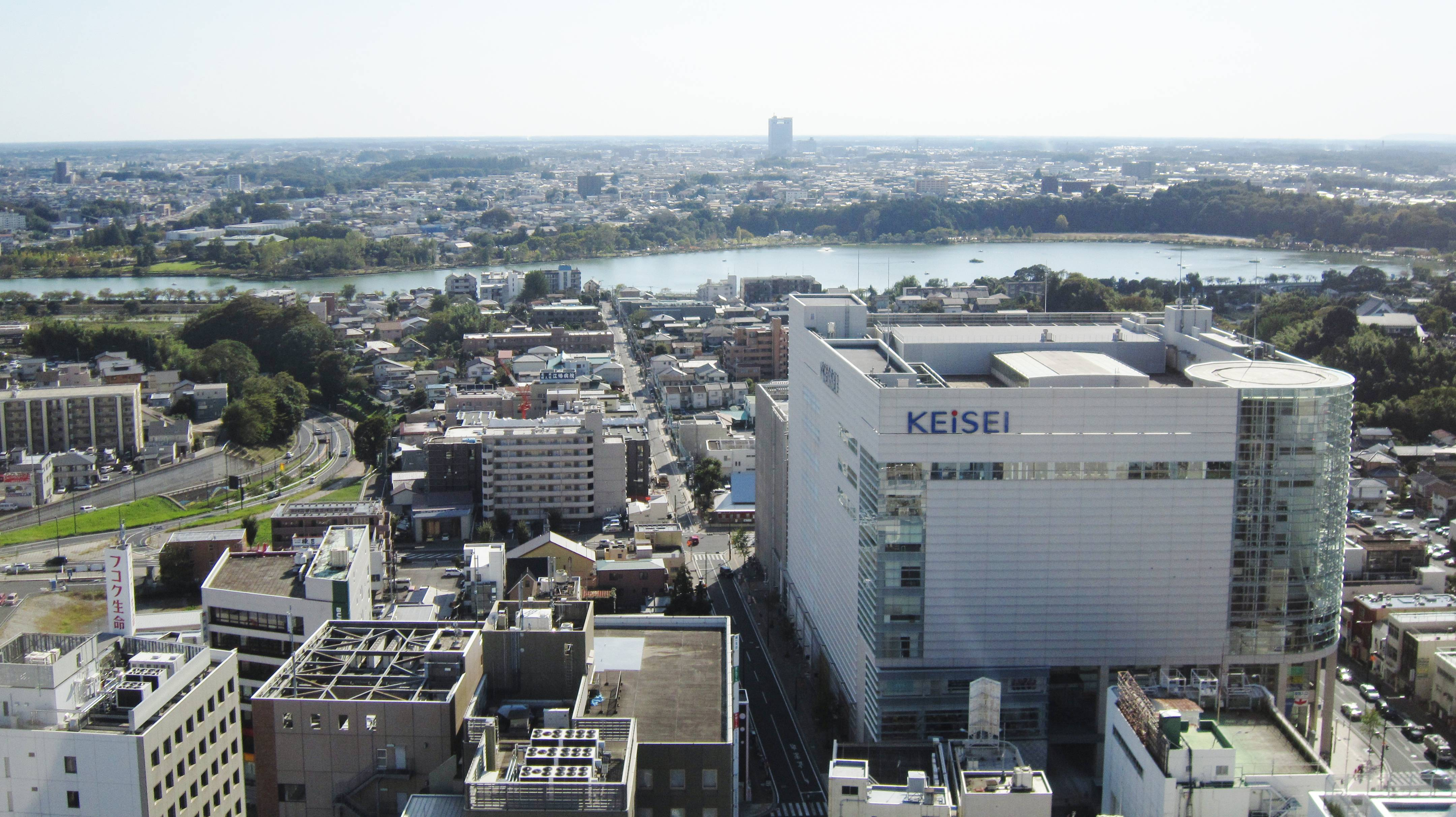 View from Art Tower Mito.